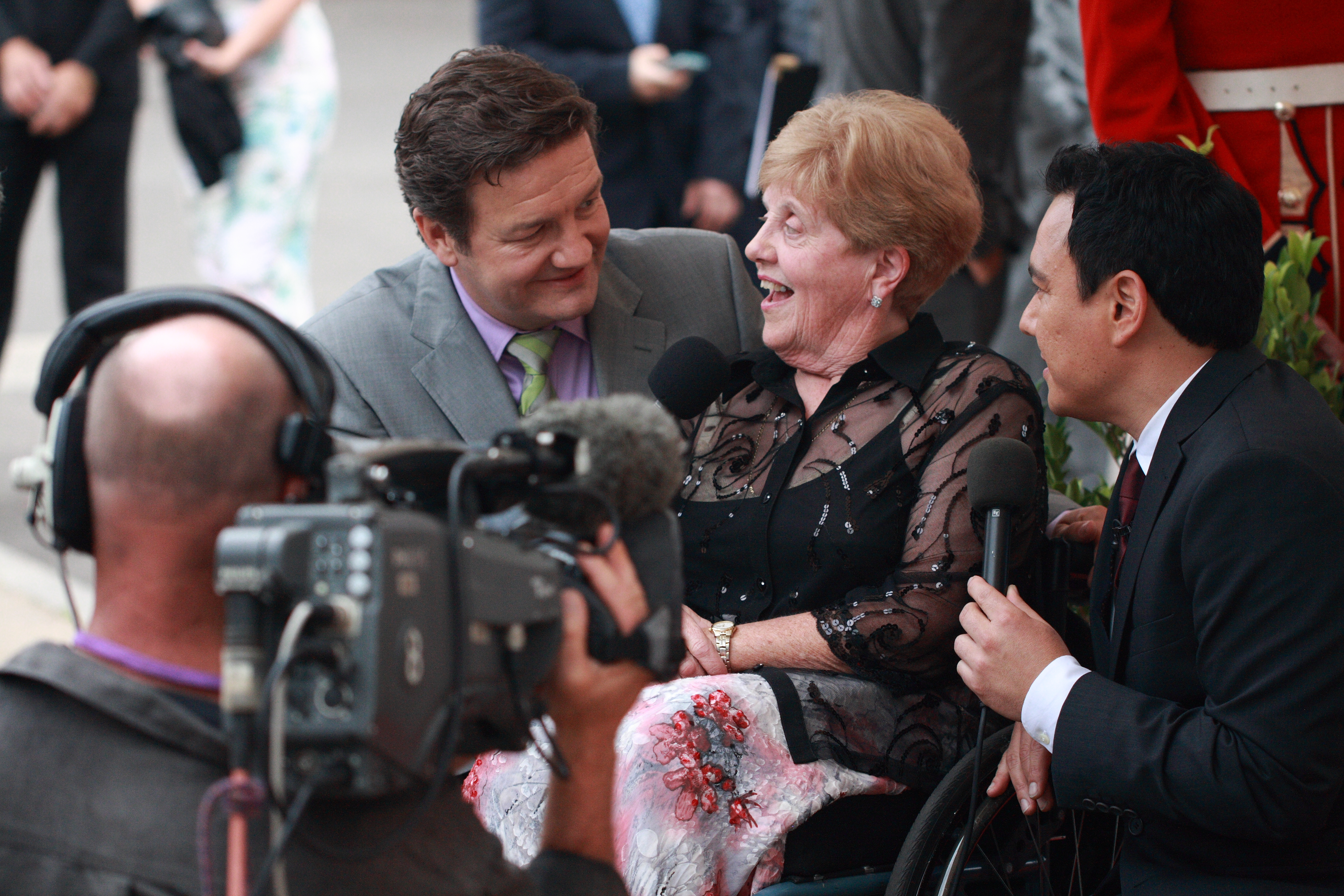 Australian Paralympian of the Year 2012 ceremony at the Hordern Pavilion, Sydney, Australia.